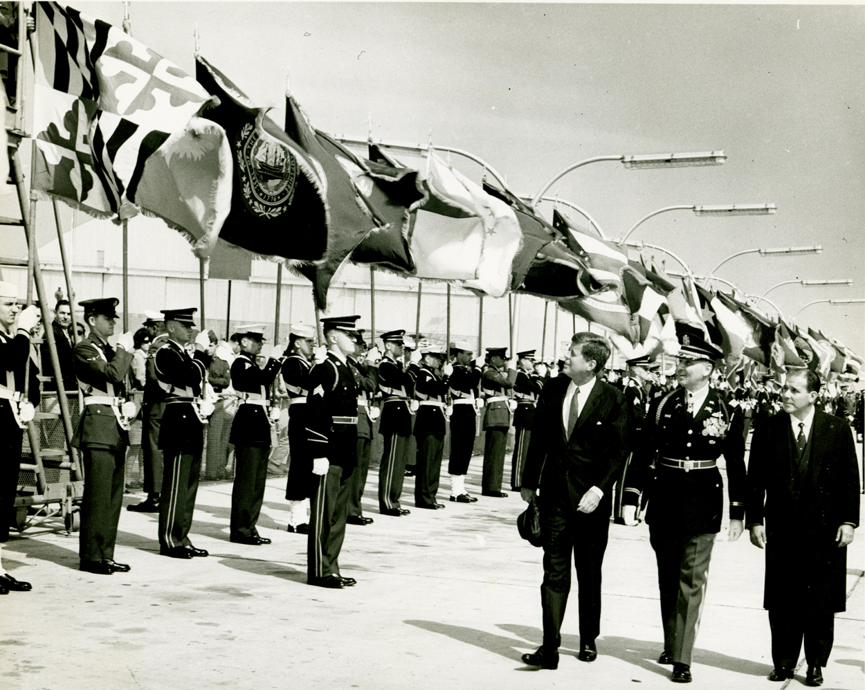 United States Army officer Charles Murray walks in between President John F. Kennedy, left, and Brazilian President João Goulart during a review of troops on April 3, 1962. Murray was the commander of the 3rd Infantry Regiment.